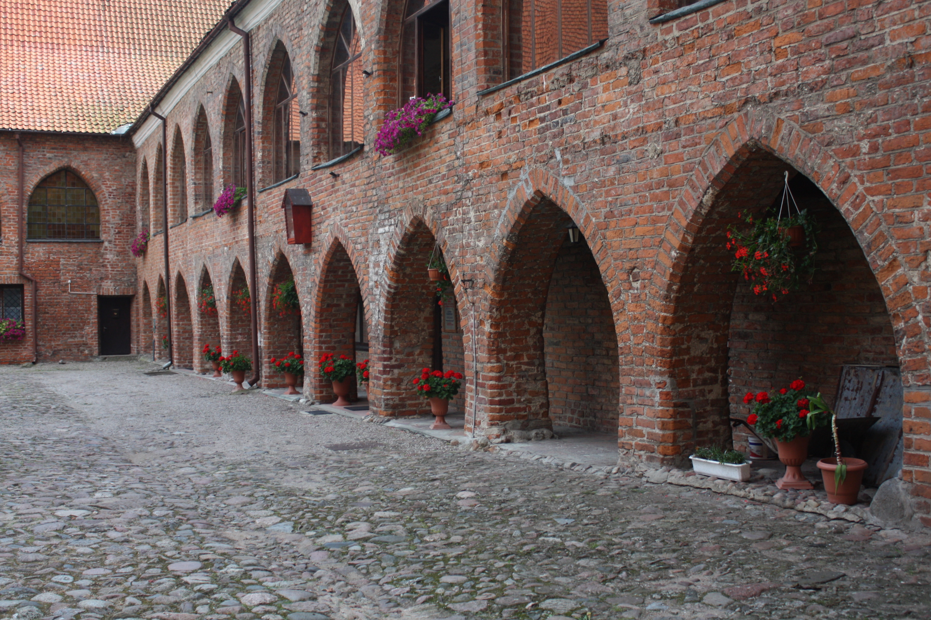 This photo of Warmian-Masurian Voivodeship was taken during Wikiexpedition 2012 set up by Wikimedia Polska Association. You can see all photographs in category Wikiekspedycja 2012. The making of this document was supported by Wikimedia Polska.